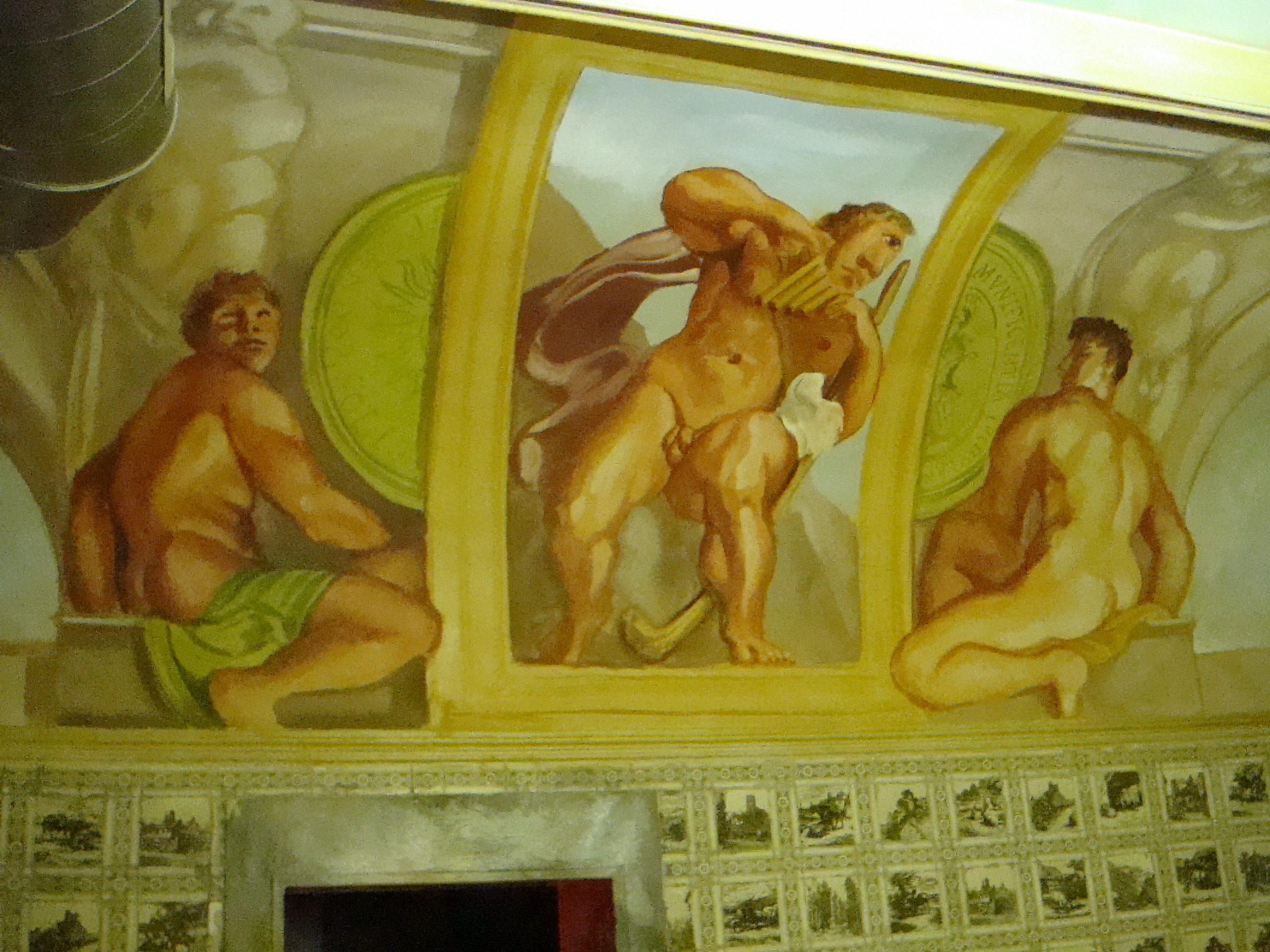 Centralbad Vienna 12